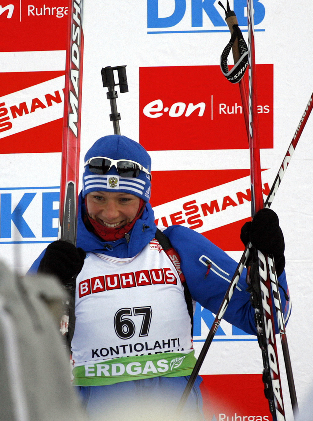 Olga Zaitseva. Second place at women 7.5 km sprint, 13 march 2010, Kontiolahti.